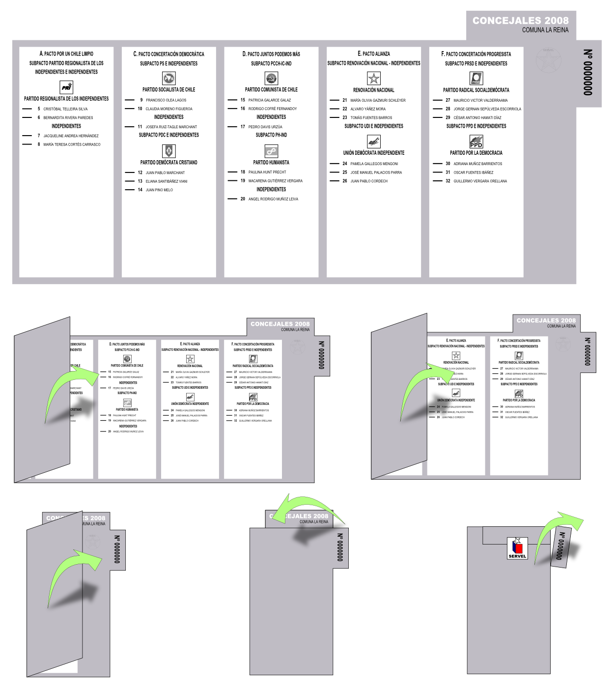 Imitation of a ballot used in the election of concejales of La Reina commune in the 2008 elections in Chile